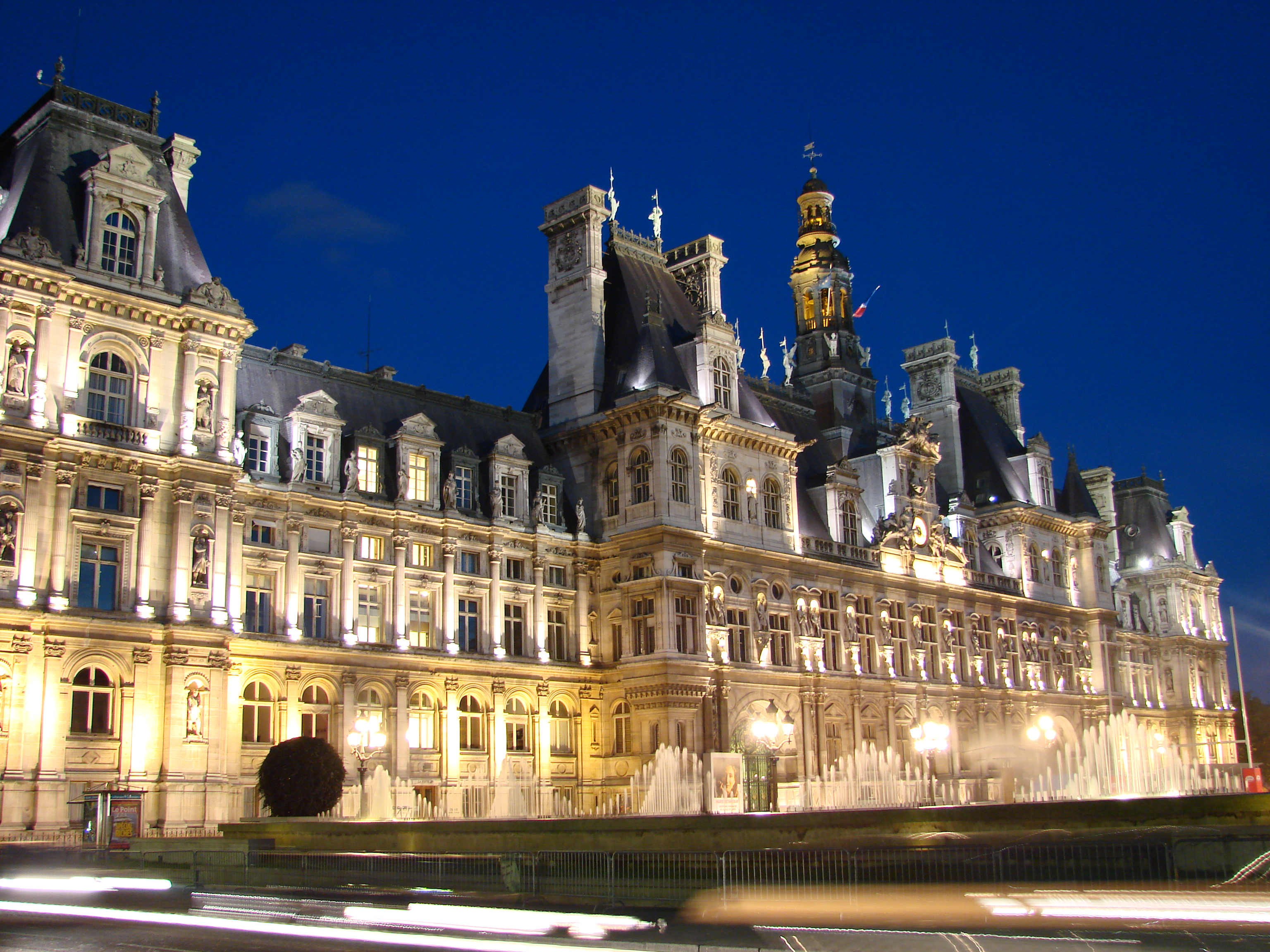 Paris City Hall